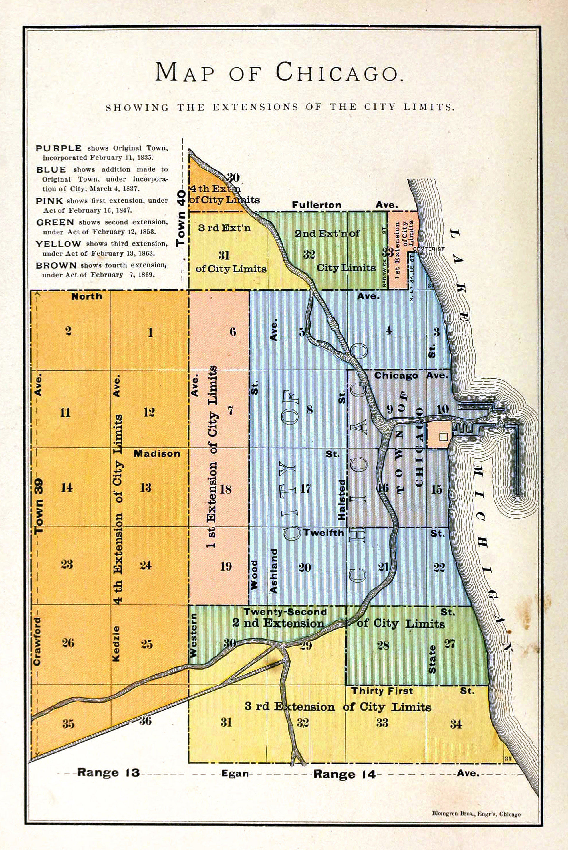 Map of Chicago, showing the extensions of the city limits